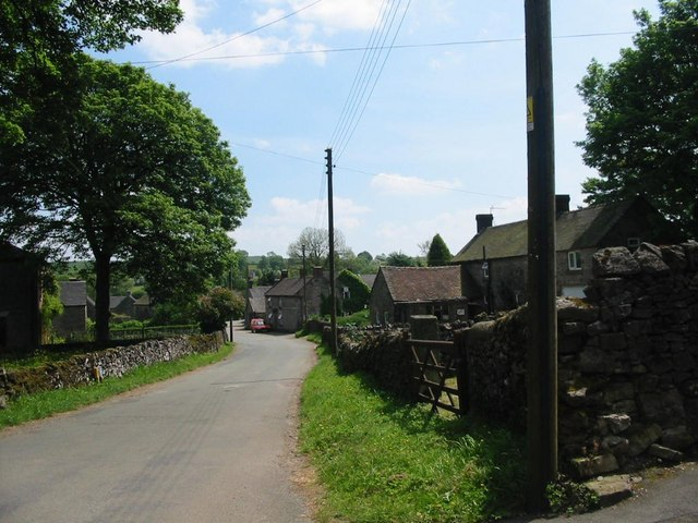 Calton, Staffordshire, Great Britain